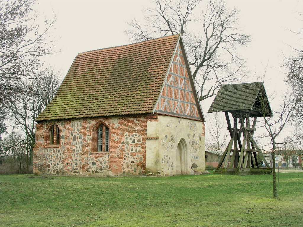 Church of Goldenstädt, Mecklenburg-Western Pomerania, Germany